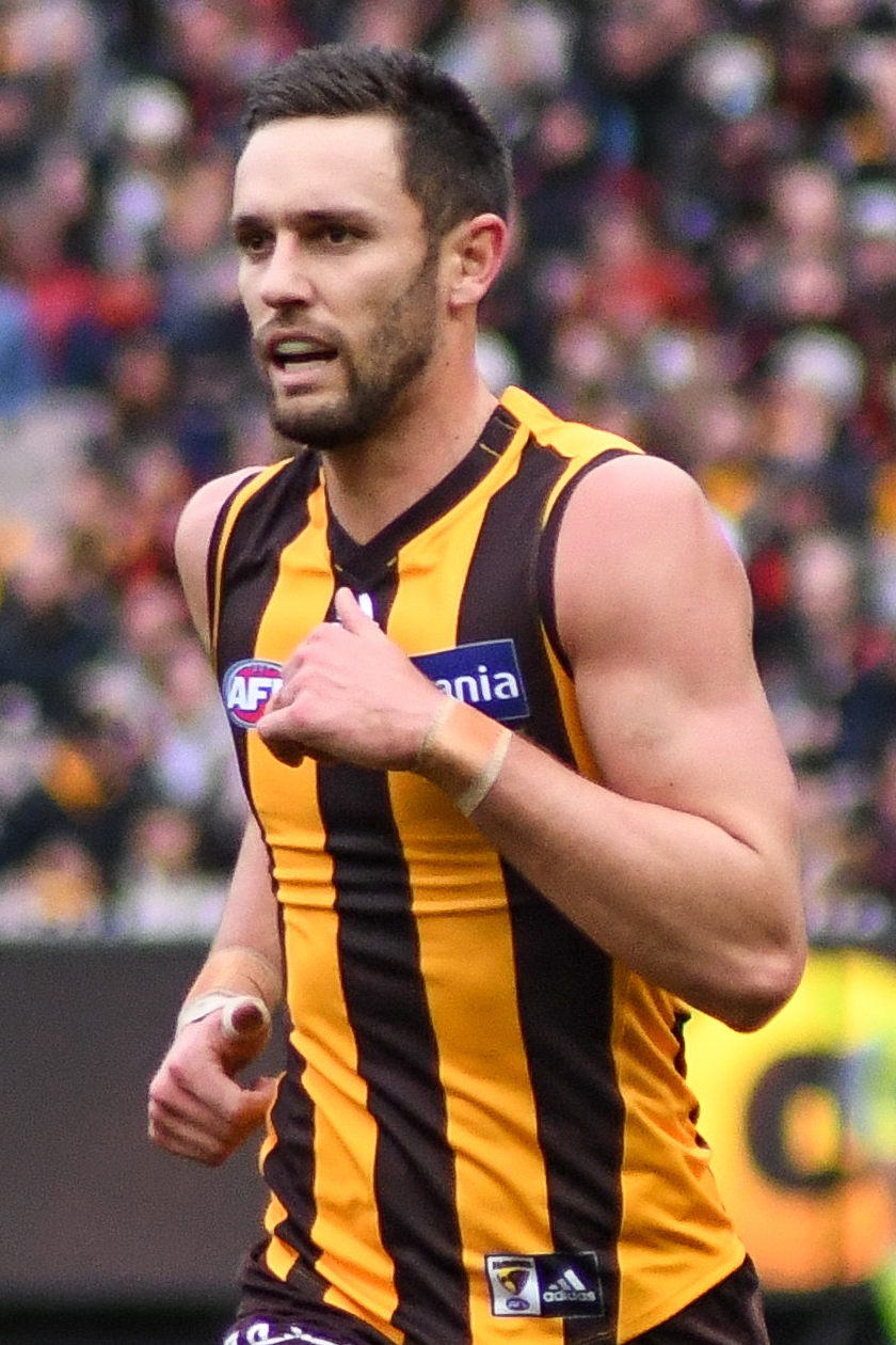 Jack Gunston of Hawthorn during the 2018 AFL round 20 match between Hawthorn and Essendon at the Melbourne Cricket Ground on Saturday, 4 August 2018 in Melbourne, Victoria.